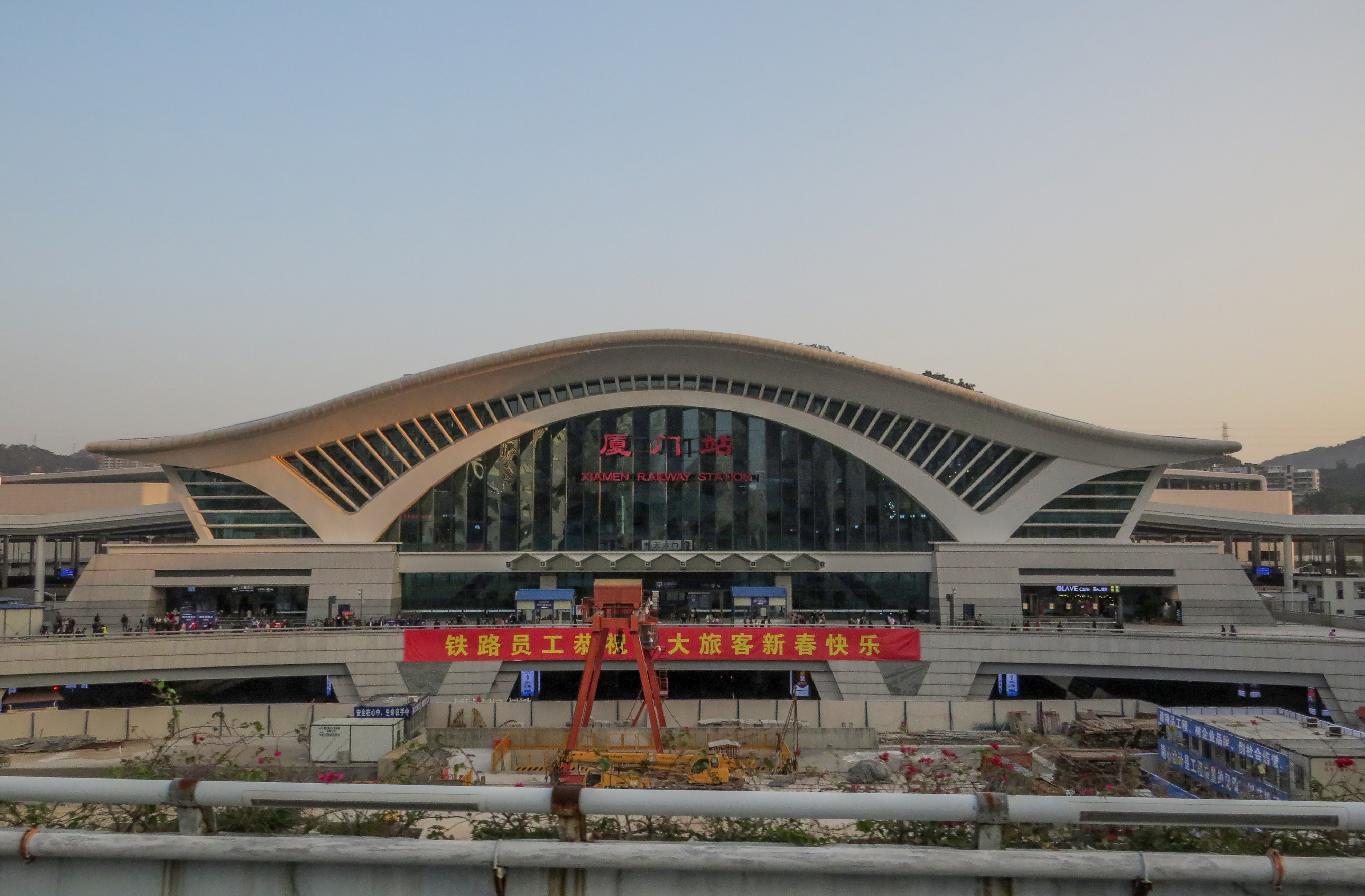 Taken from BRT1. So difficult to get this position.